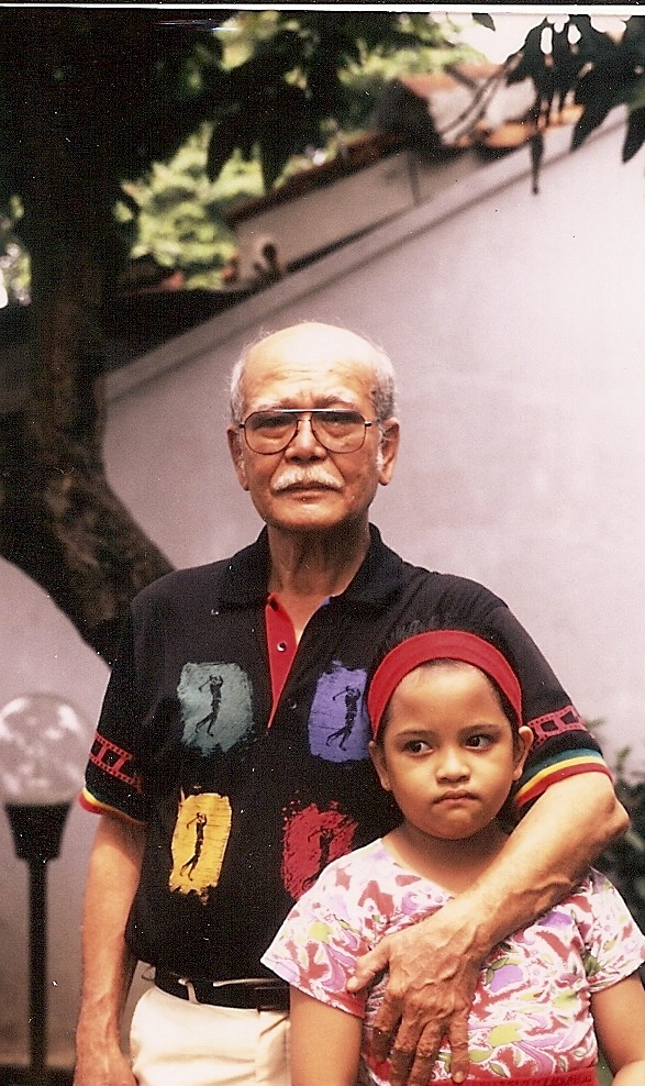 Rusli Amran and Grand Daughter